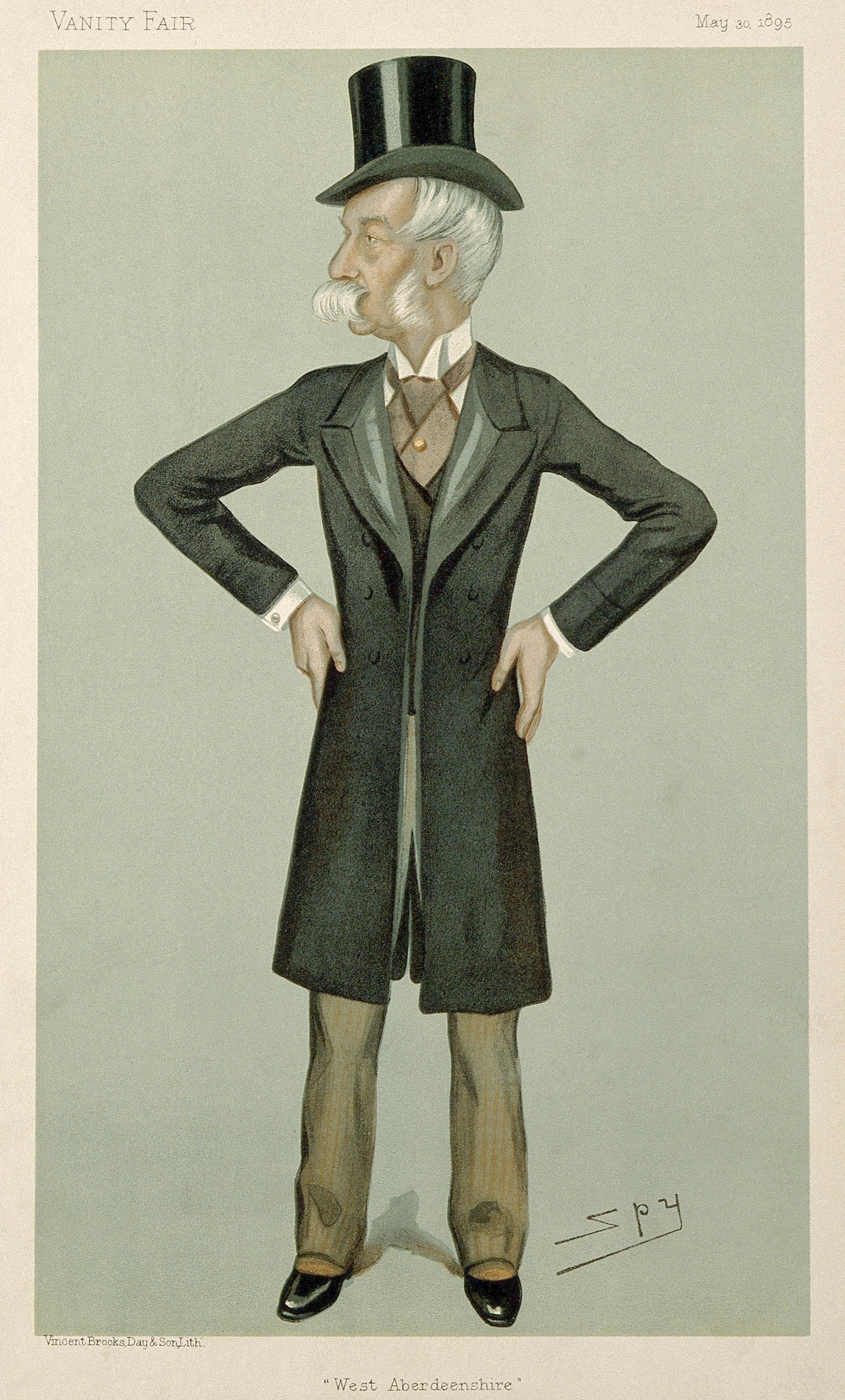 Caricature of Dr Robert Farquharson MP. Caption read "West Aberdeenshire".